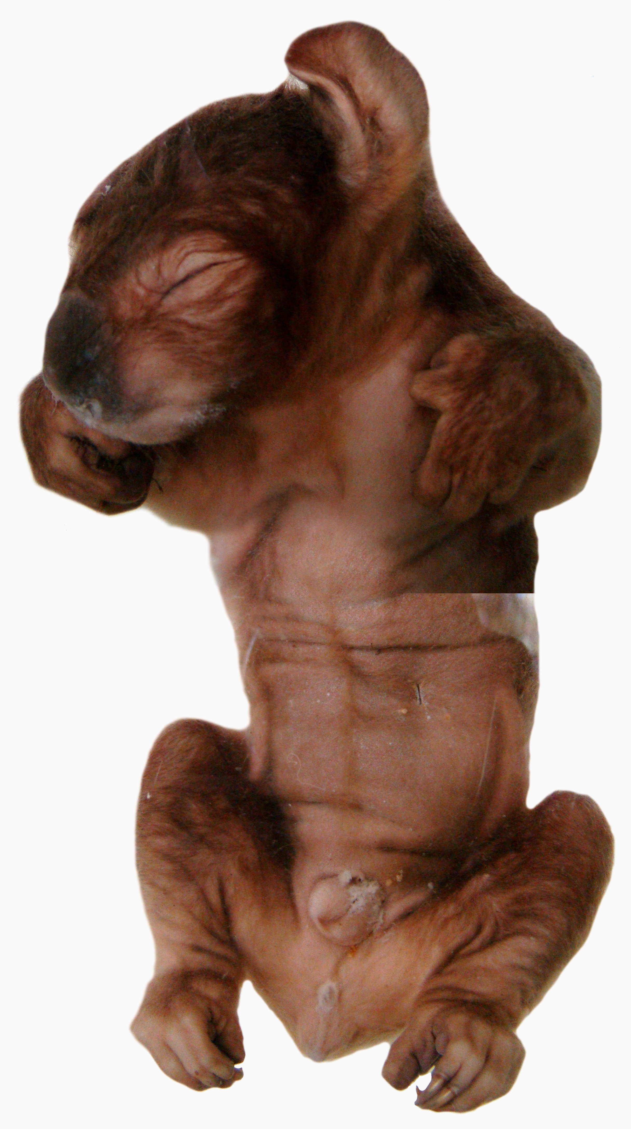 A preserved koala joey, still in the stage where it spends its time in the mother's pouch. Photographed at a display at the Koala Hospital in Port Macquarie, New South Wales, Australia.